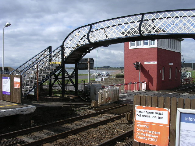 Carnoustie railway station